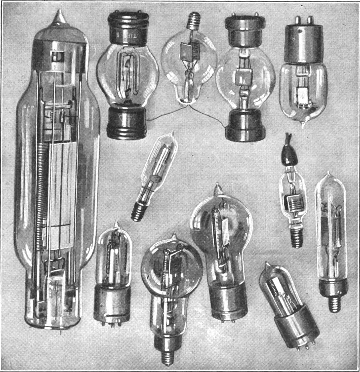 Collection of early triode vacuum tubes belonging to American inventor Lee De Forest, the inventor of the triode, from 1920. Description of tubes from caption (VF is the filament voltage, VP is the plate voltage, tubes in row numbered L to R) Large tube, left: 1/2 kW oscillator tube VF = 37 V, VP = 1500 V Top row: (1) Spanish type B, VF = 6, VP = 20-150, (2) Pre-WW1 De Forest "ultra-audion", VF = 3.5, VP = 20, (3) Spanish "Compagne Espanole" receiving tube, VF = 3.5, VP = 20, (4) Moorhead receiver, VF = 4, VP = 40-500, Two small tubes, center: (1) Early De Forest Audion, 1906, (2) Historic Audion from battleship Georgia used in 1908 US Navy round-the-world cruise which demonstrated value of wireless on Naval ships, VF = 3.5, VP = 25 Bottom row: (1) Western Electric VT-1, F = 6, VP = 40, (2) Old style De Forest oscillator, VF = 7, VP = 350, (3) Small power tube, detector, amplifier, oscillator, VF = 7, VP = 500, (4) VT-21 Signal Corps detector, VF = 4, VP = 20-40, (5) Navy detector tube with rare earth oxide filament, VF = 6, VP = 40